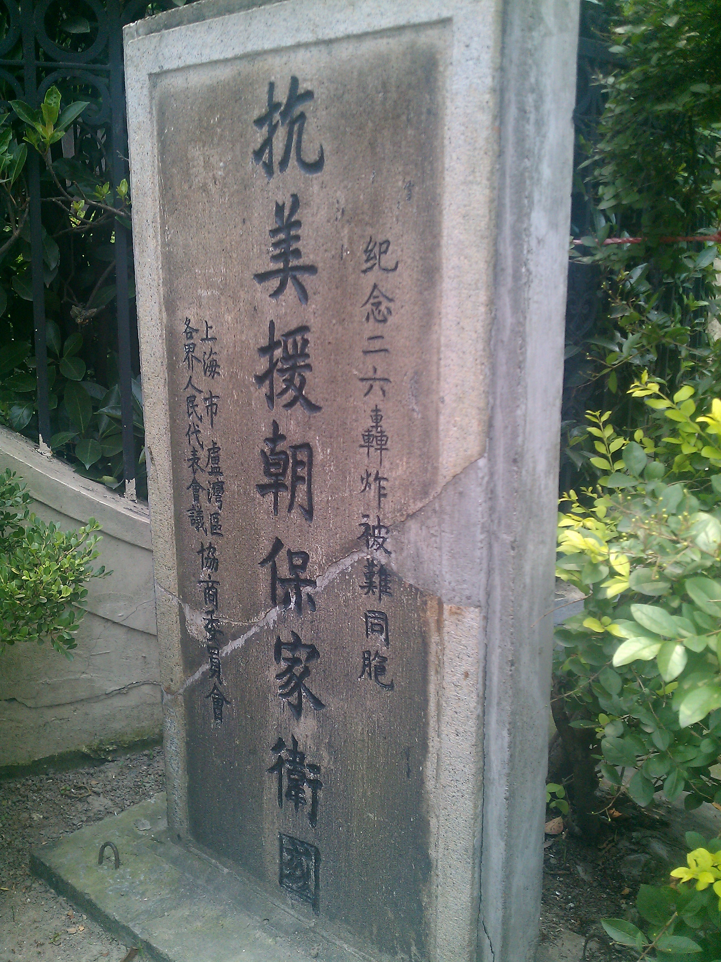 The monument in memorial of victims in February 6th bombing at Shanghai, built by Former Chinese People's Political Consultative Conference Shanghai Luwan District Committee in 1952.